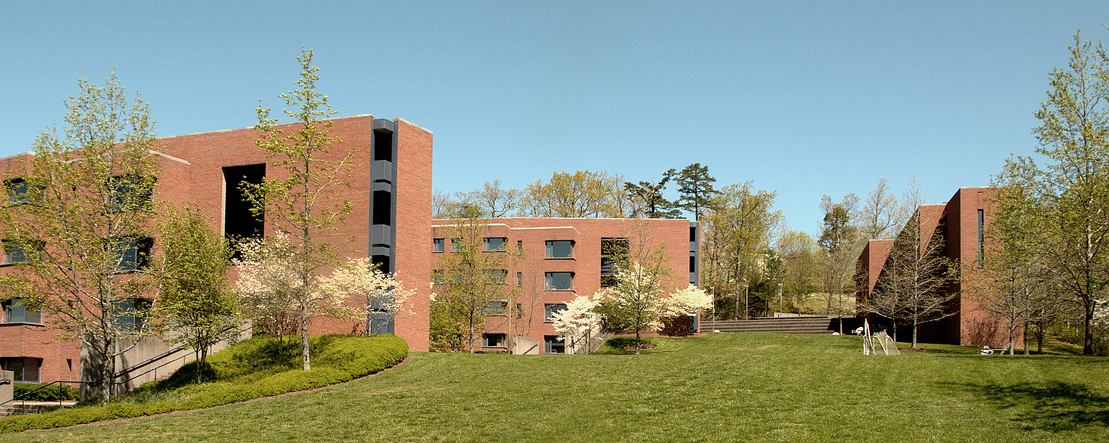 SUBJECT: Hereford College LOCATION: University of Virginia in Charlottesville, USA CAMERA: Olympus E-410